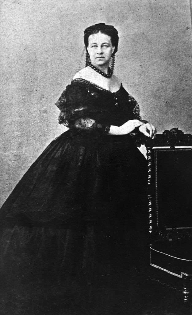 Marie, Queen of Hanover (formerly Princess of Saxe-Altenburg)